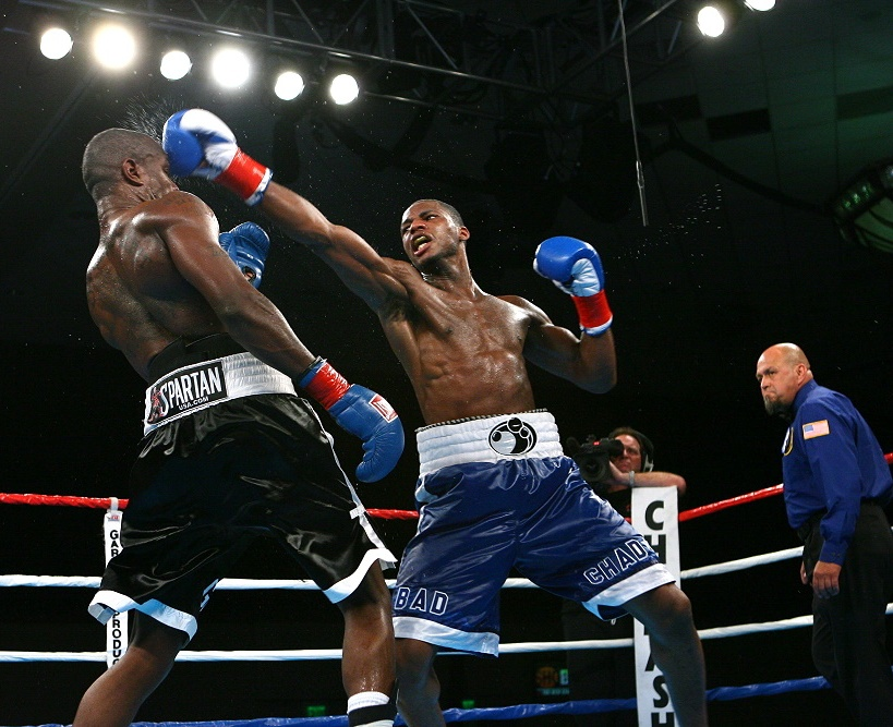 Dwight McCann, Dawson (blue trunks) defeats Eric Harding on June 2, 2006 at the Chumash Casino Resort in Santa Ynez, California. Cropped slightly by Ali'i on 14:33, 25 March 2008 (UTC)